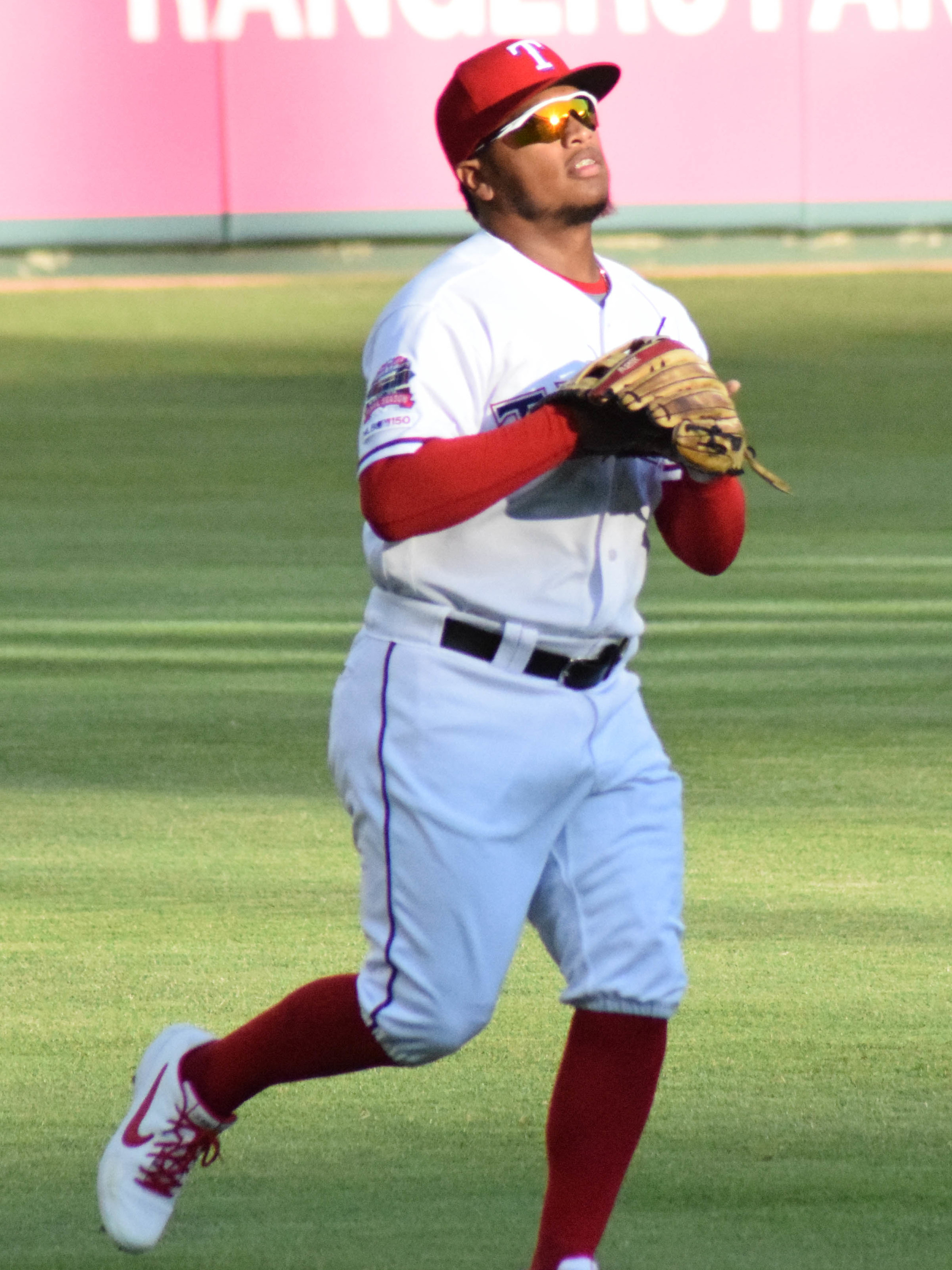 Willie Calhoun with the Texas Rangers during a 2019 game at Globe Life Park in Arlington